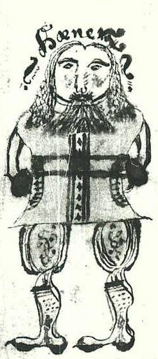 An illustration of the Norse god Hœnir, from an Icelandic 17th century manuscript. A scan of a black and white photography.